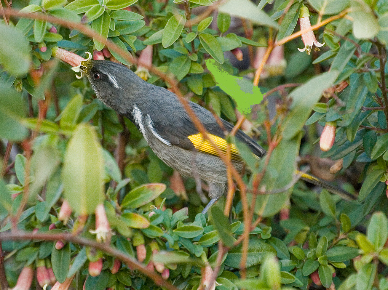 A male Crescent Honeyeater feeds in Tasmania, Australia.